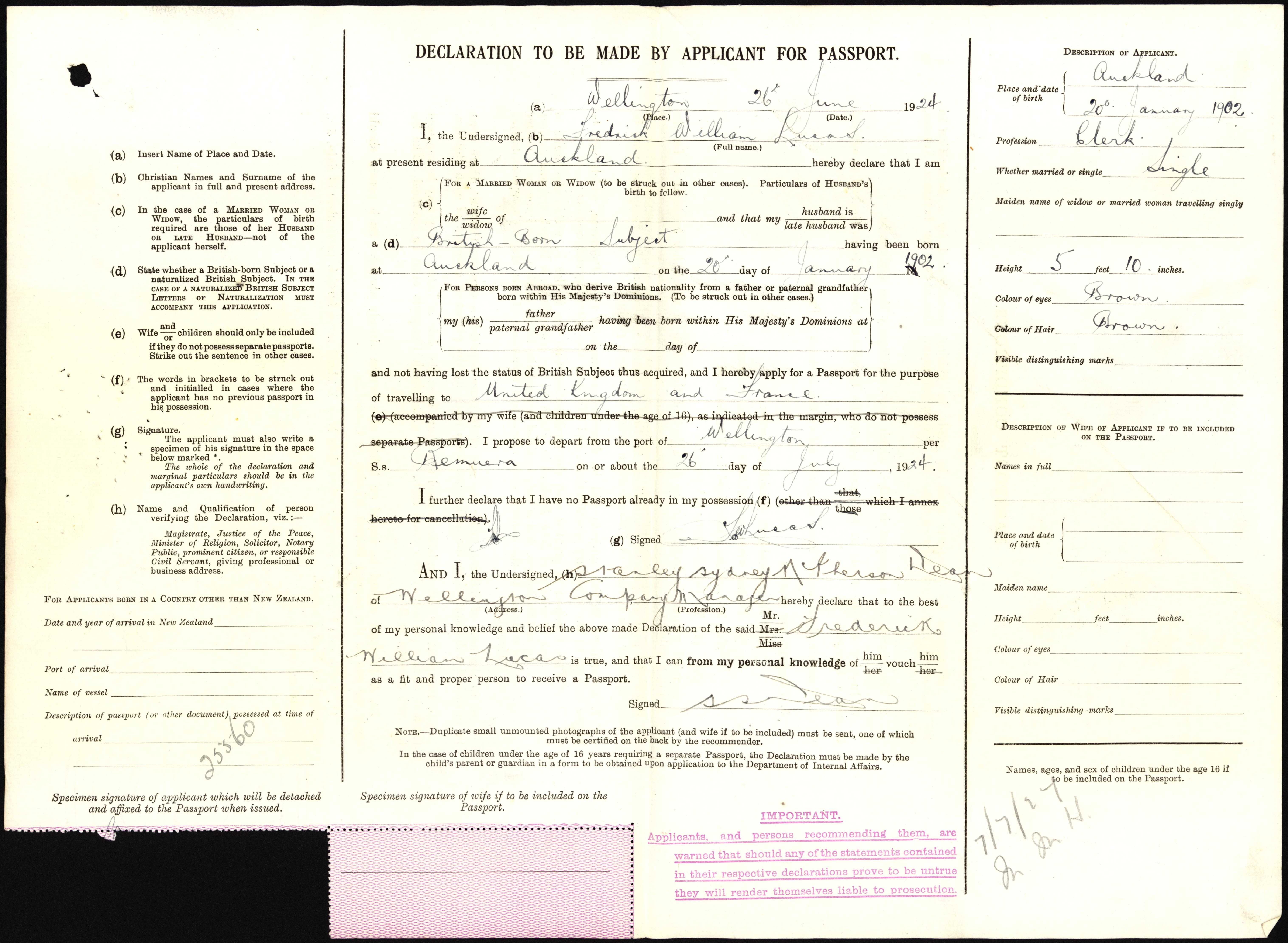 ACGO 8333 IA1 1349 / 15/11/17721 Fredrick Lucas passport application (1924)